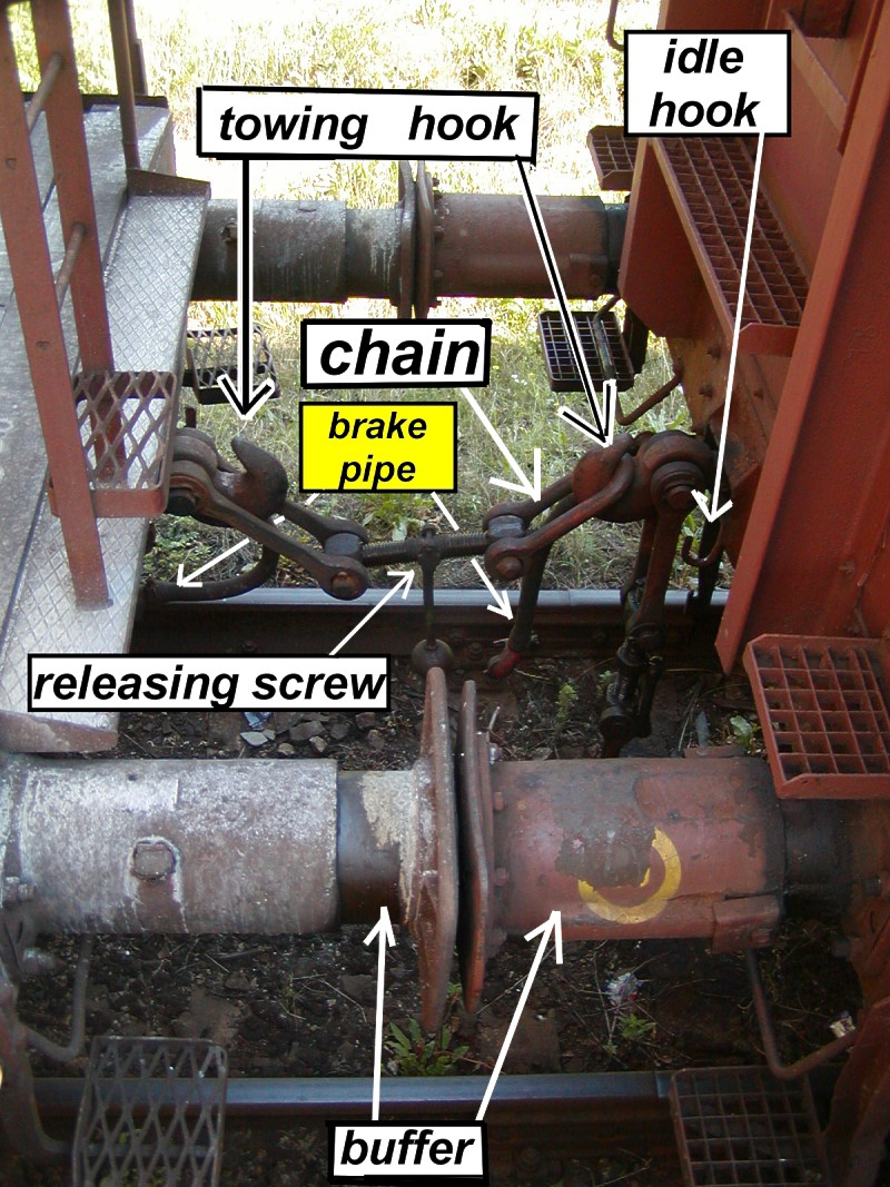 photo by Zoltán Bogoly 2007